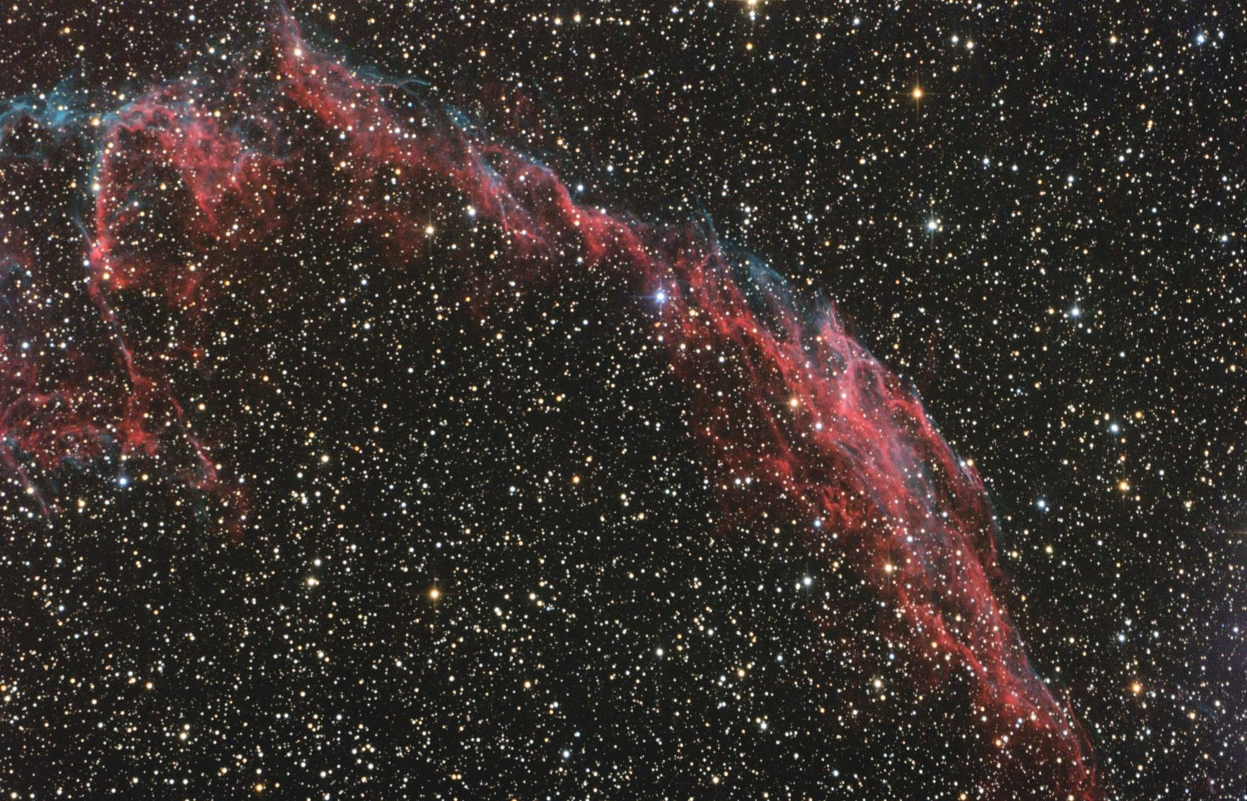 The Veil Nebula